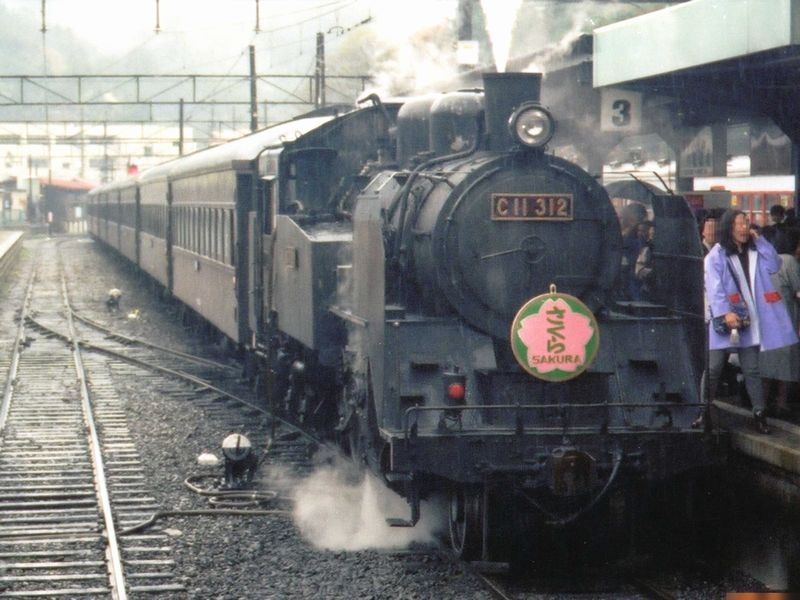 Former JNR Class C11 steam locomotive C11 312 at Senzu Station on the Oigawa Railway Company